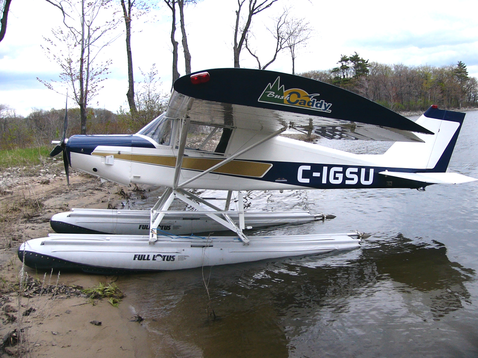 CLASS R-80 Bush Caddy at Vaudreuil, Quebec, Canada